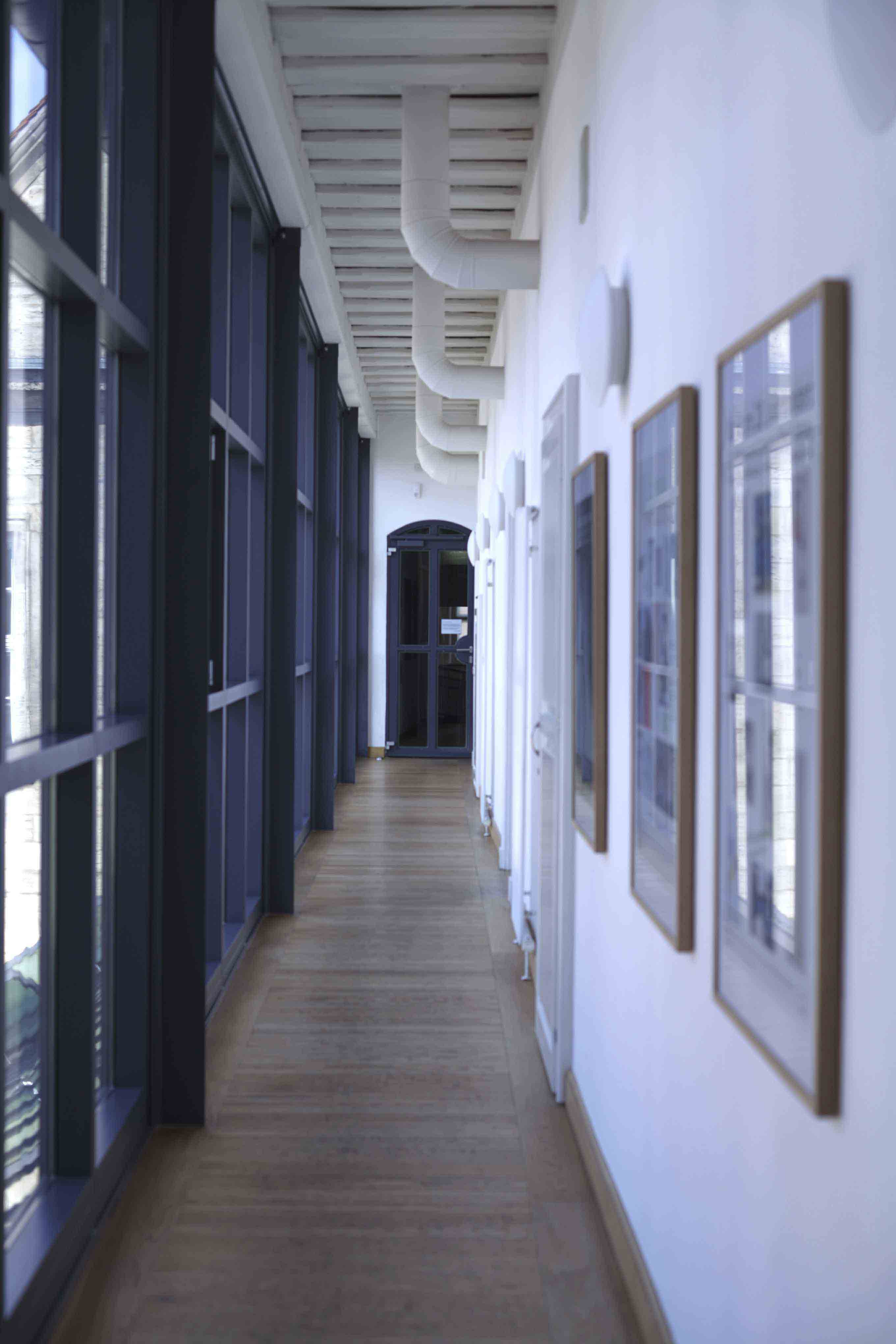 Bayreuth, Maximilianstraße 33, Galerie Zweiter StockThis is a photograph of an architectural monument.